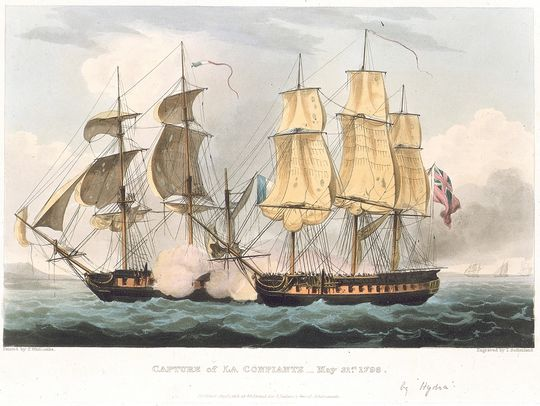 An engraving by Thomas Sutherland of a painting by Thomas Whitcombe of the engagement between HMS Hydra and French frigate Confiante on 30 May 1798.